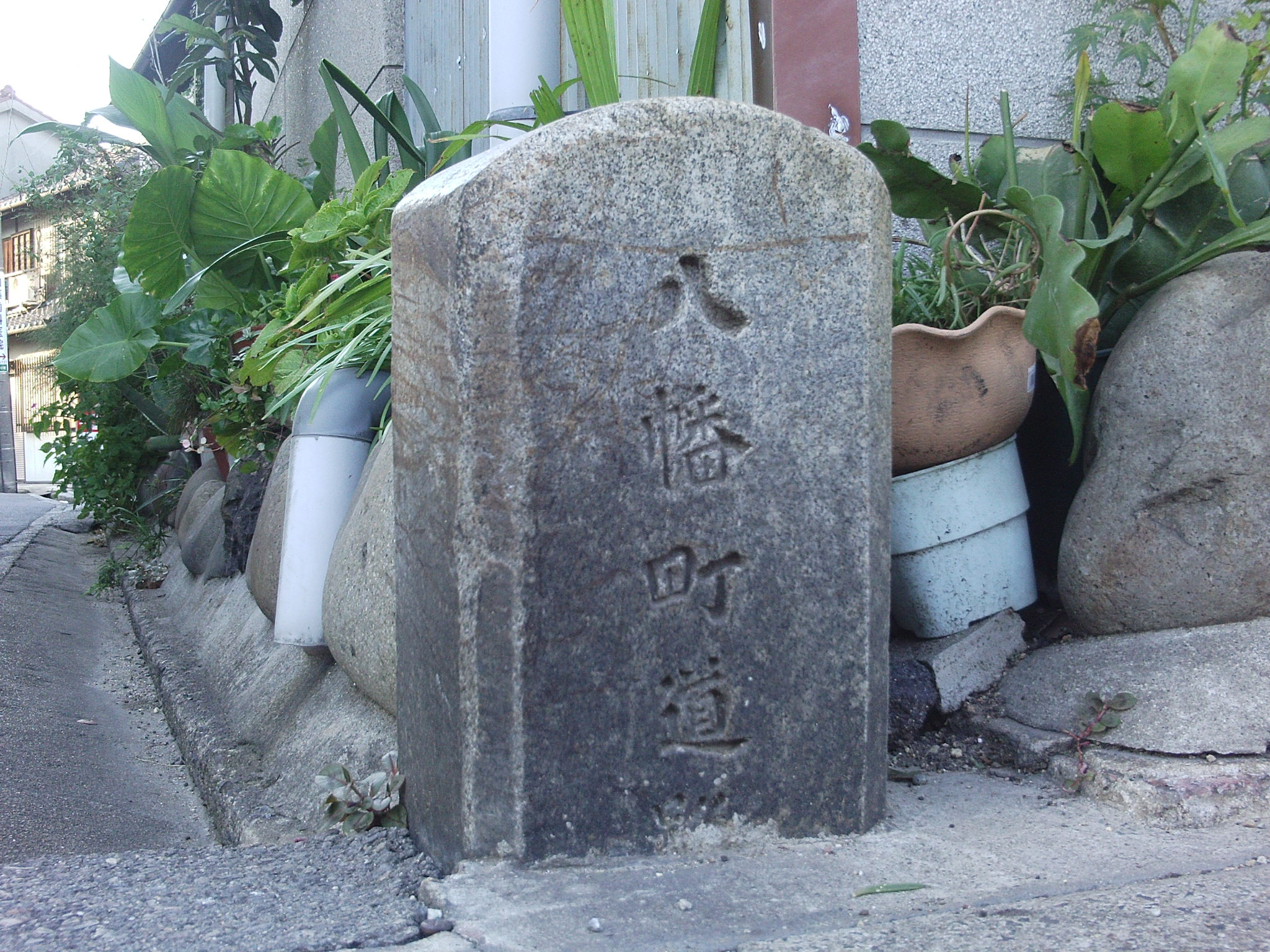 Kilometre zero of Yawata town. (Yawata town, Chita-gun, Aichi.)